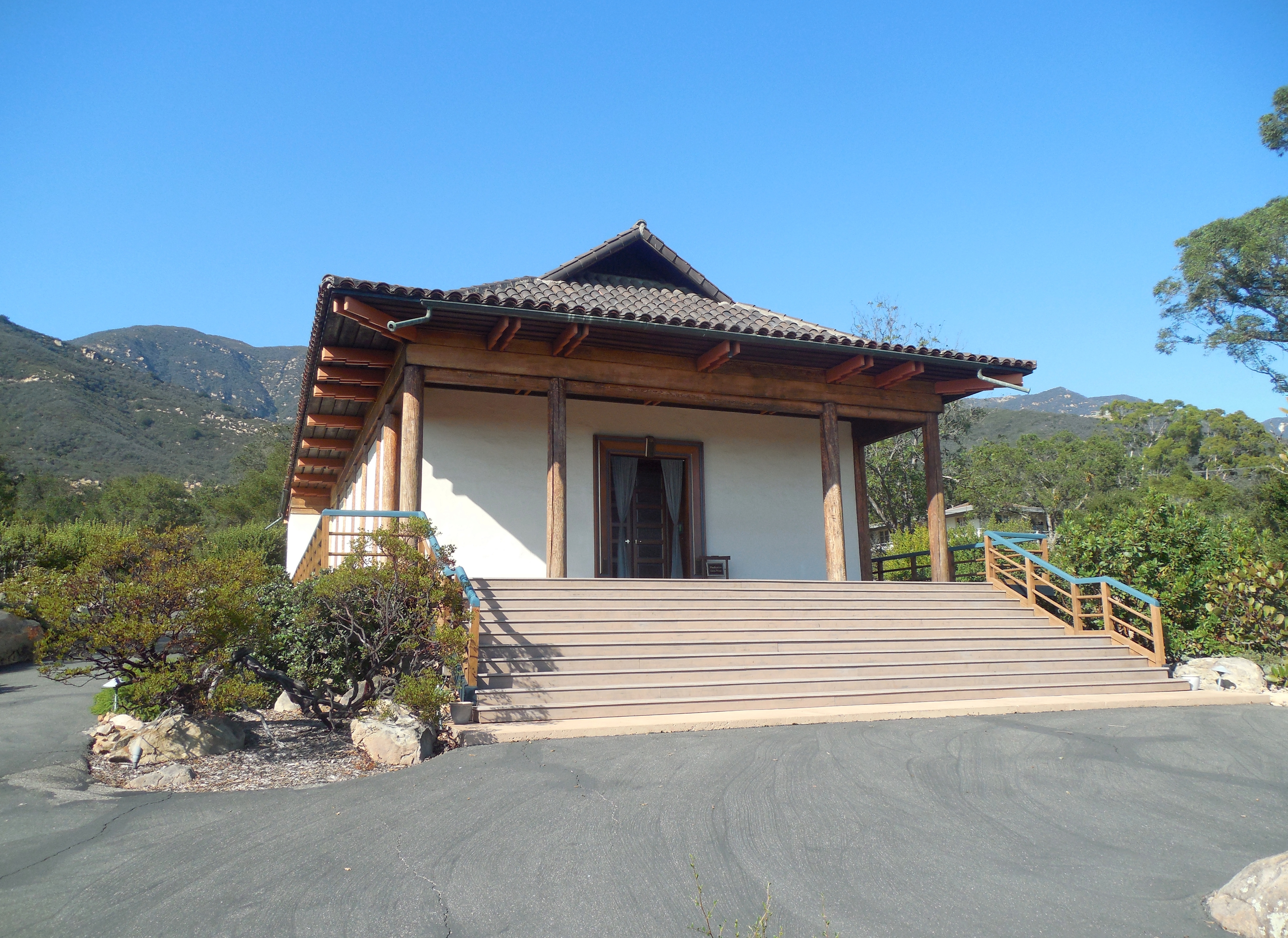 Oblique front view of the Vedanta Temple in Montecito, California